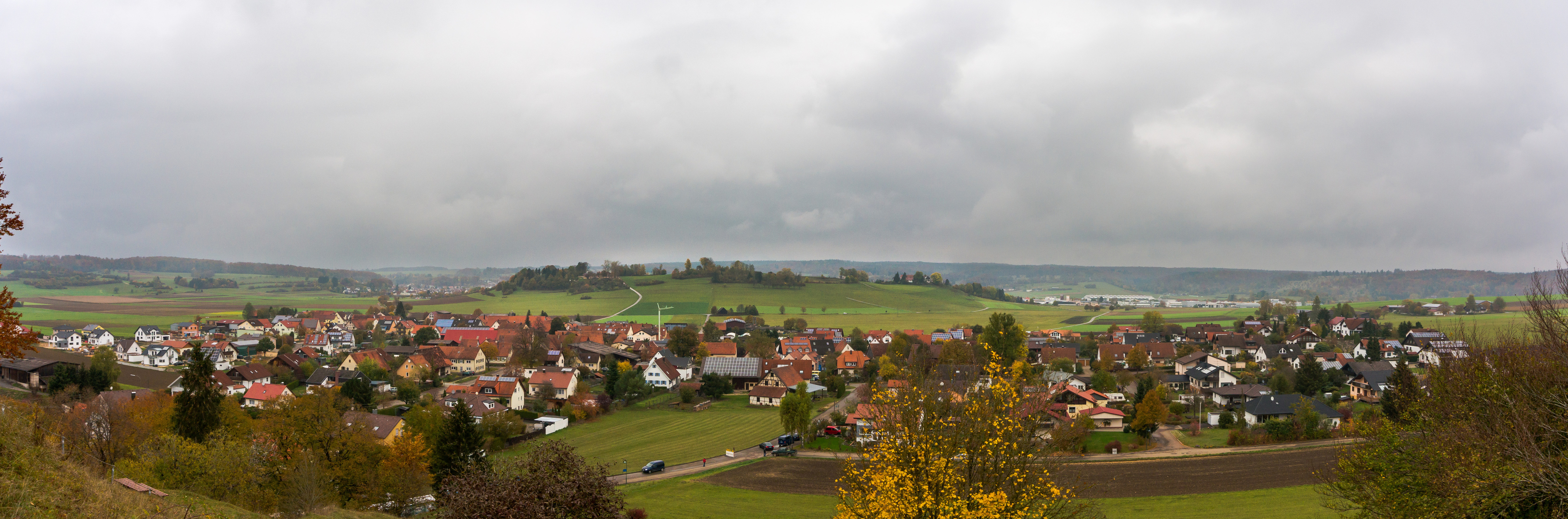 Panoramic view into the Steinheim Basin with the central uplift, as seen from the southern crater rim (Burgstall), Baden-Württemberg, Germany